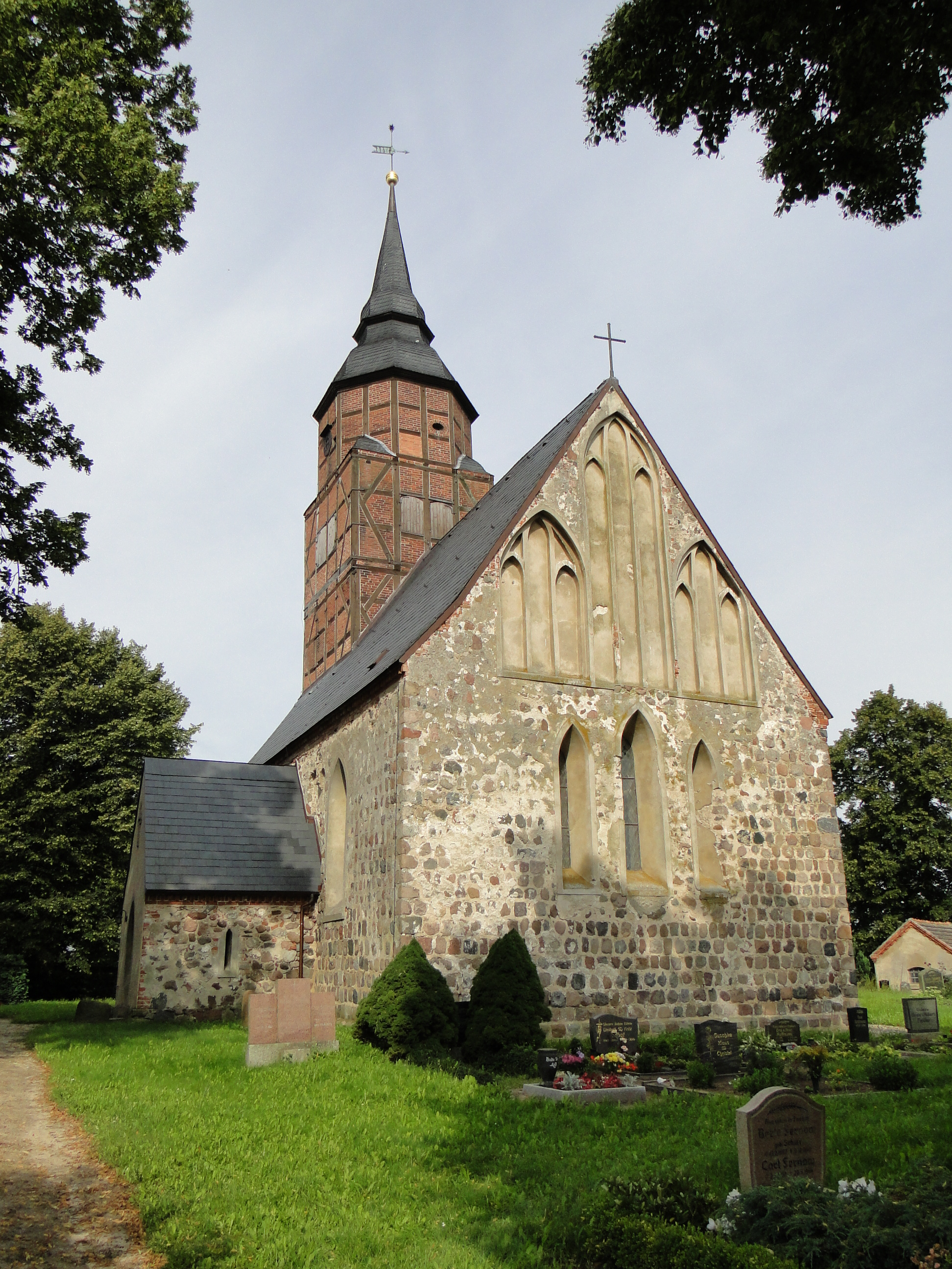 Church in Ganzkow, district Mecklenburg-Strelitz, Mecklenburg-Vorpommern, Germany